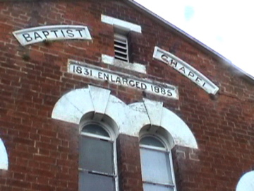 Indication of the date of build and enlargement